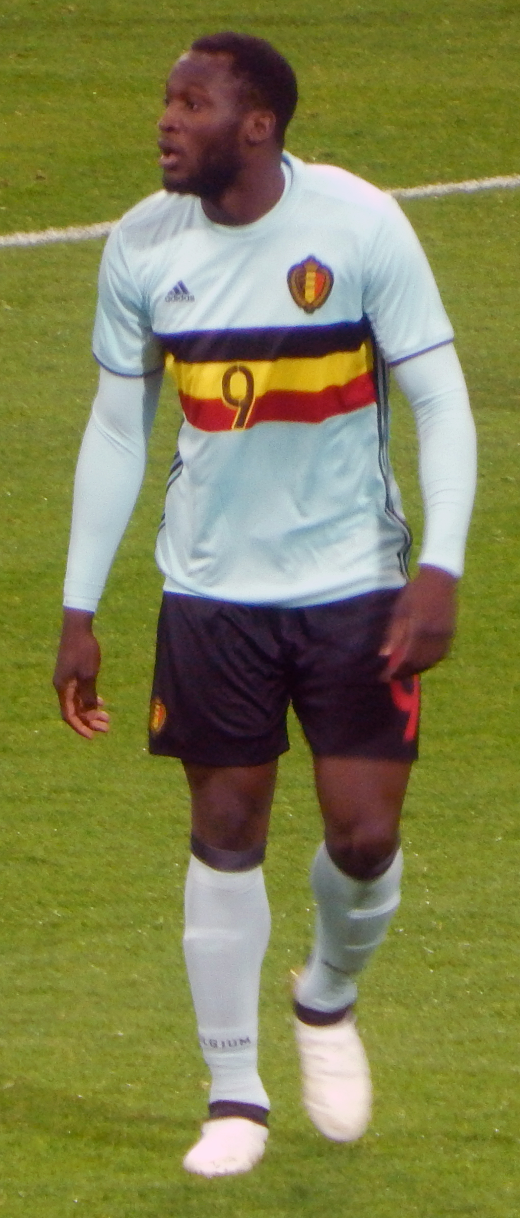 This photo was taken on March 28, 2017 during the exhibition game between Russia and Belgium. That game was held in Adler (City of Sochi) at the Fisht stadium.